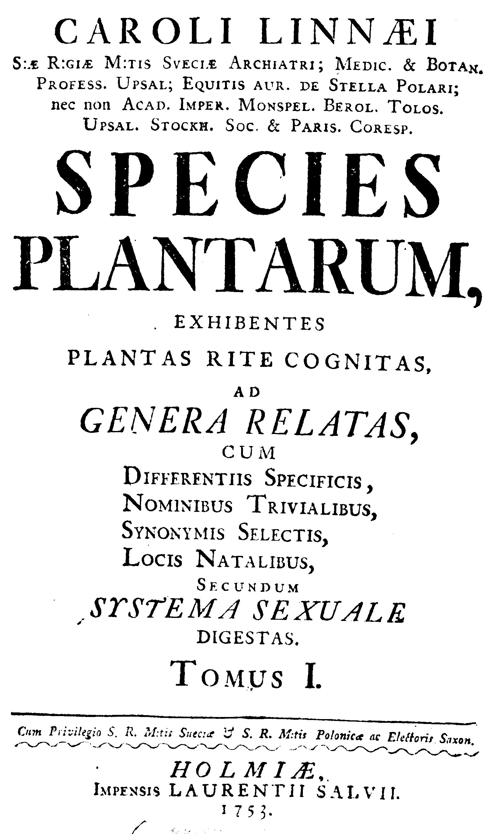 This is a slightly retouched scan of the title page of Volume 1 of Species Plantarum by Carl Linnaeus.